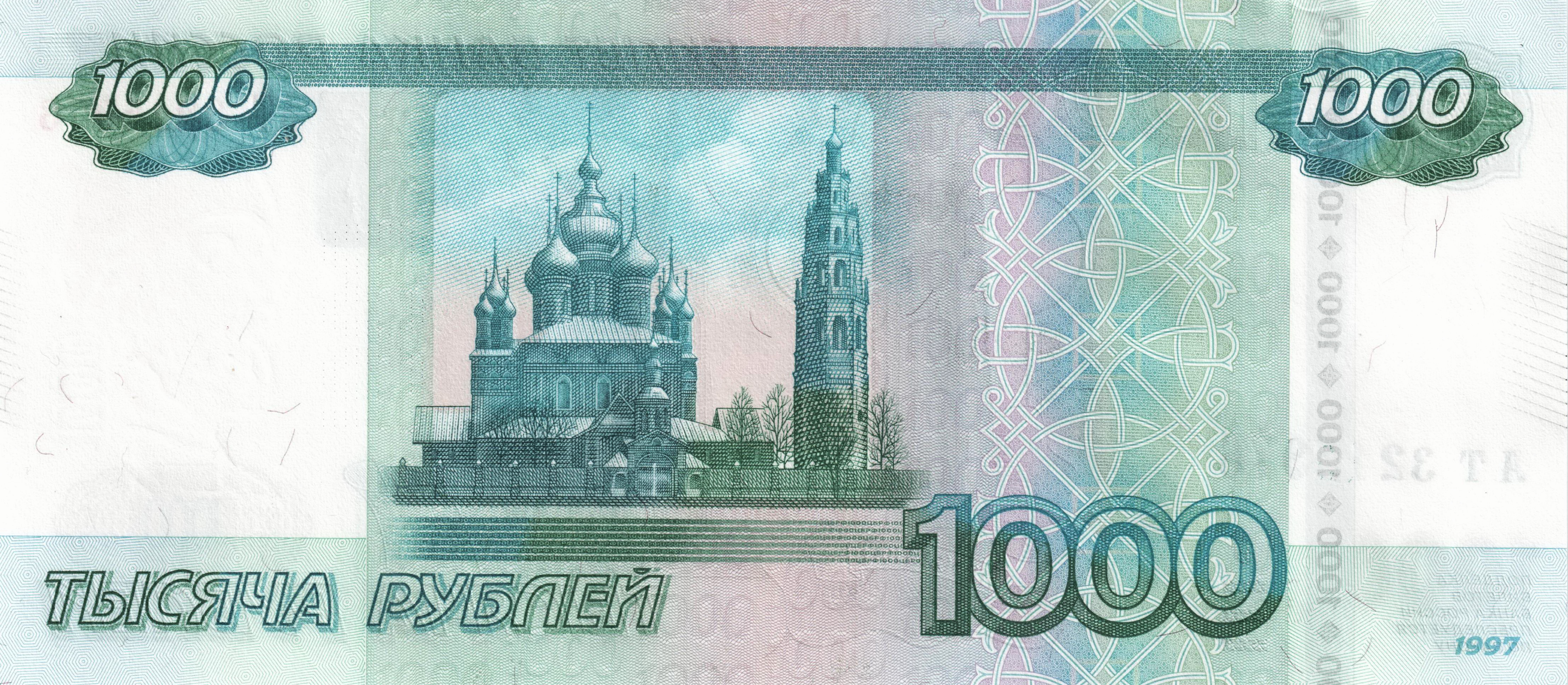 Russian banknote. 1000 rubles. Version of 2010 year. Back